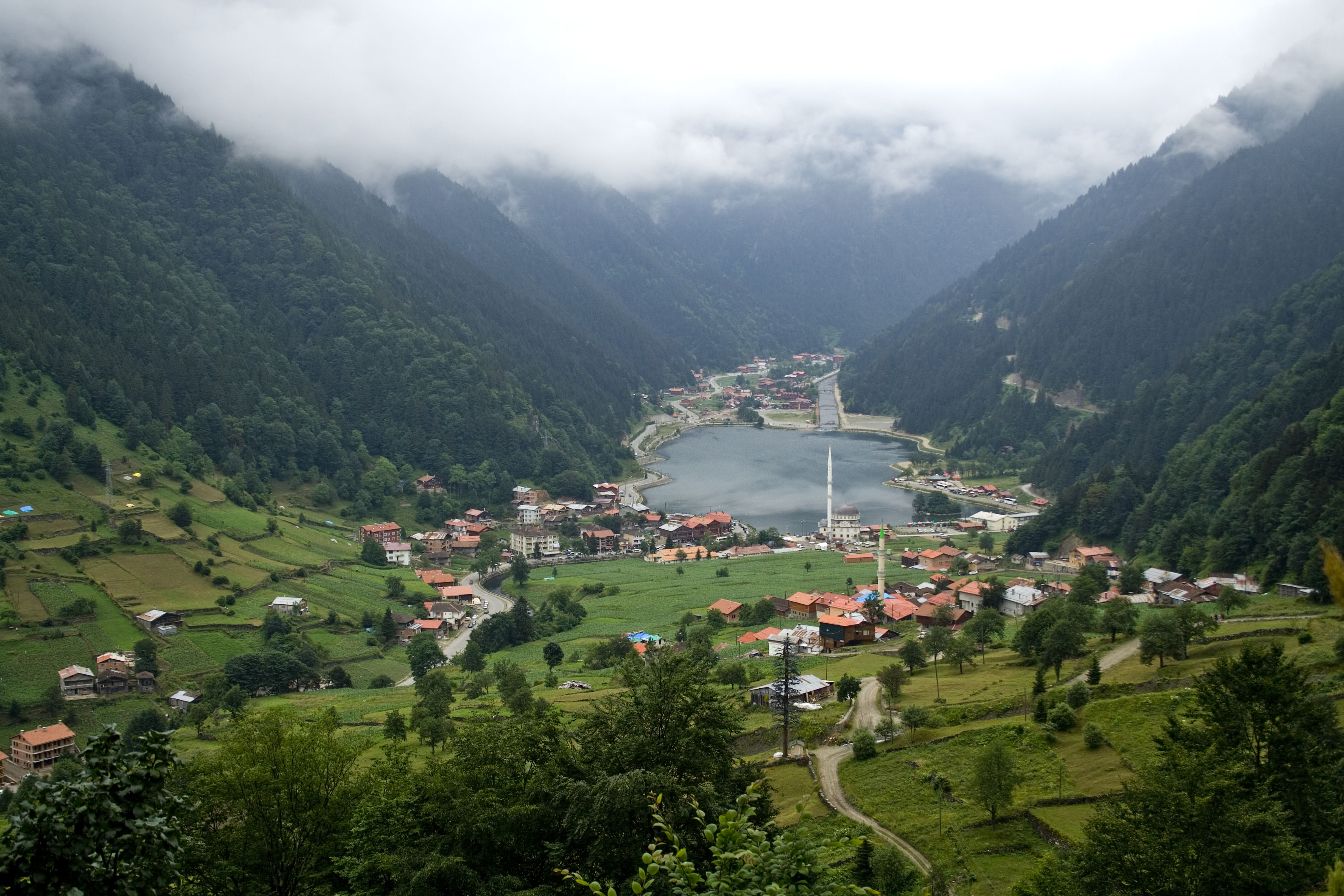 Overlooking Uzungöl village and lake